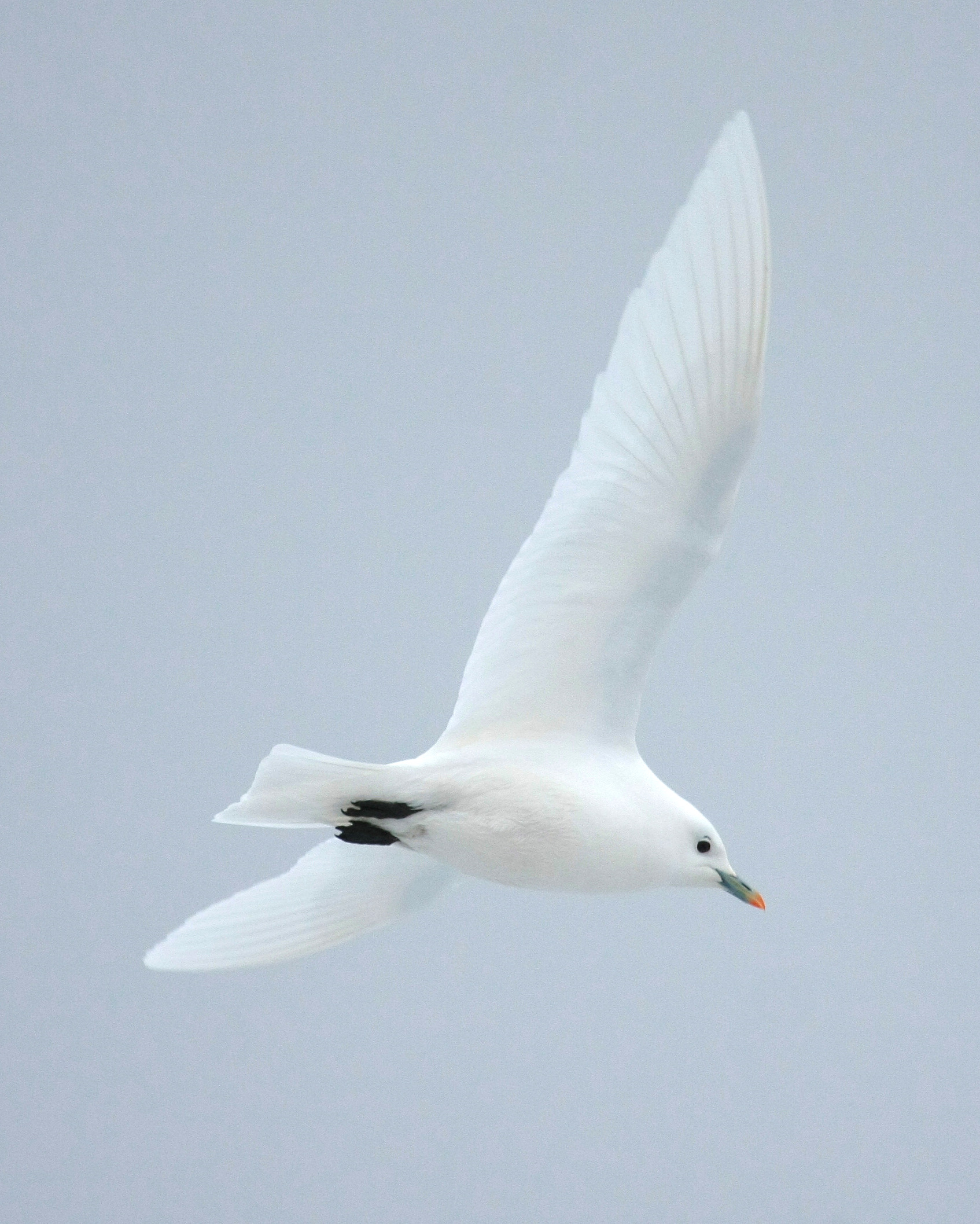 Pagophila eburnea in flight